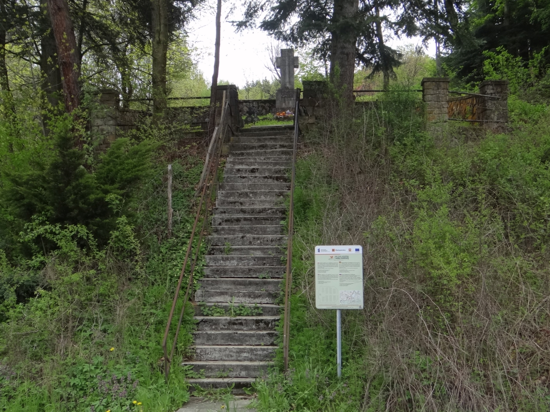 World War I Cemetery nr 151 in Lubaszowa